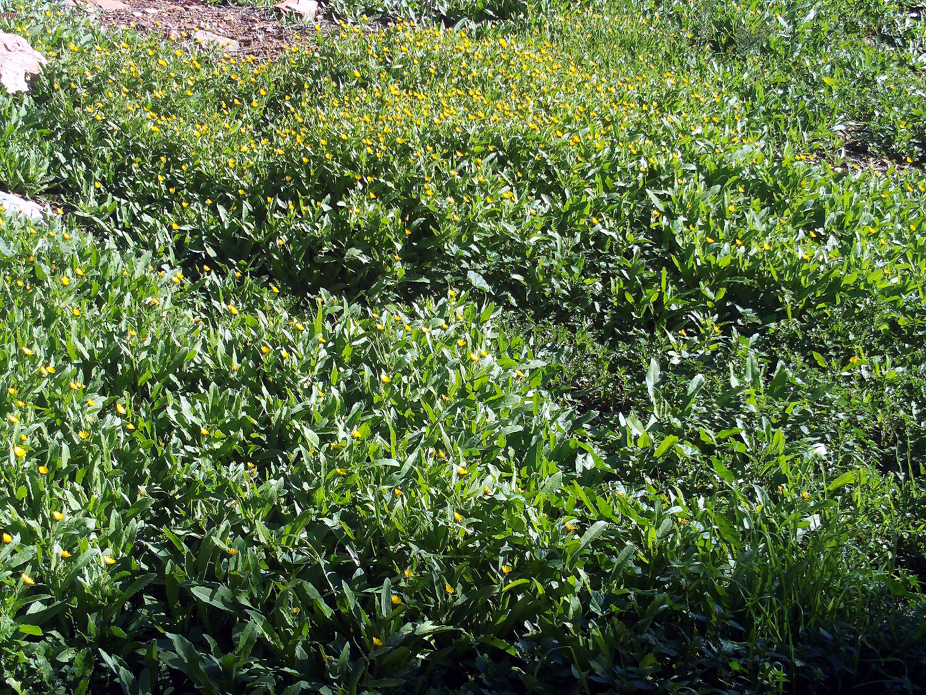 Calendula arvensis Habit, in Sierra Madrona, Spain.